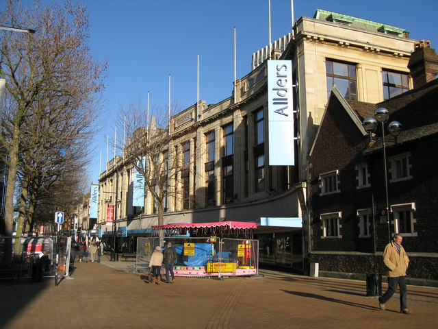 Allders department store, North End